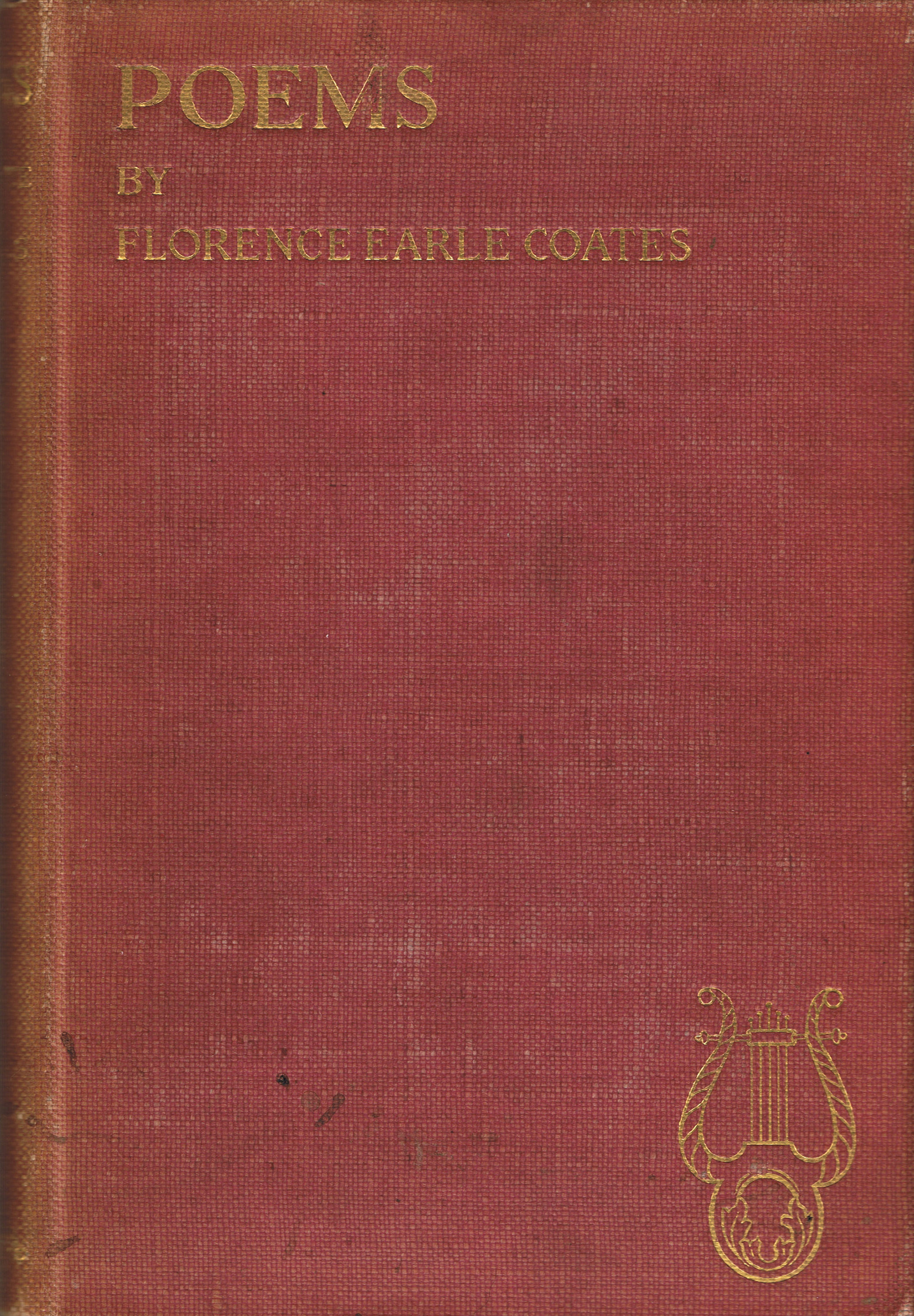 Cover of Poems (1898) by Florence Earle Coates.